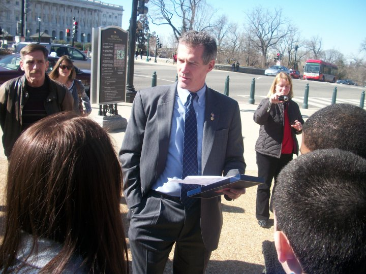 Picture of Republican Senator, Scott Brown from Massachusetts.